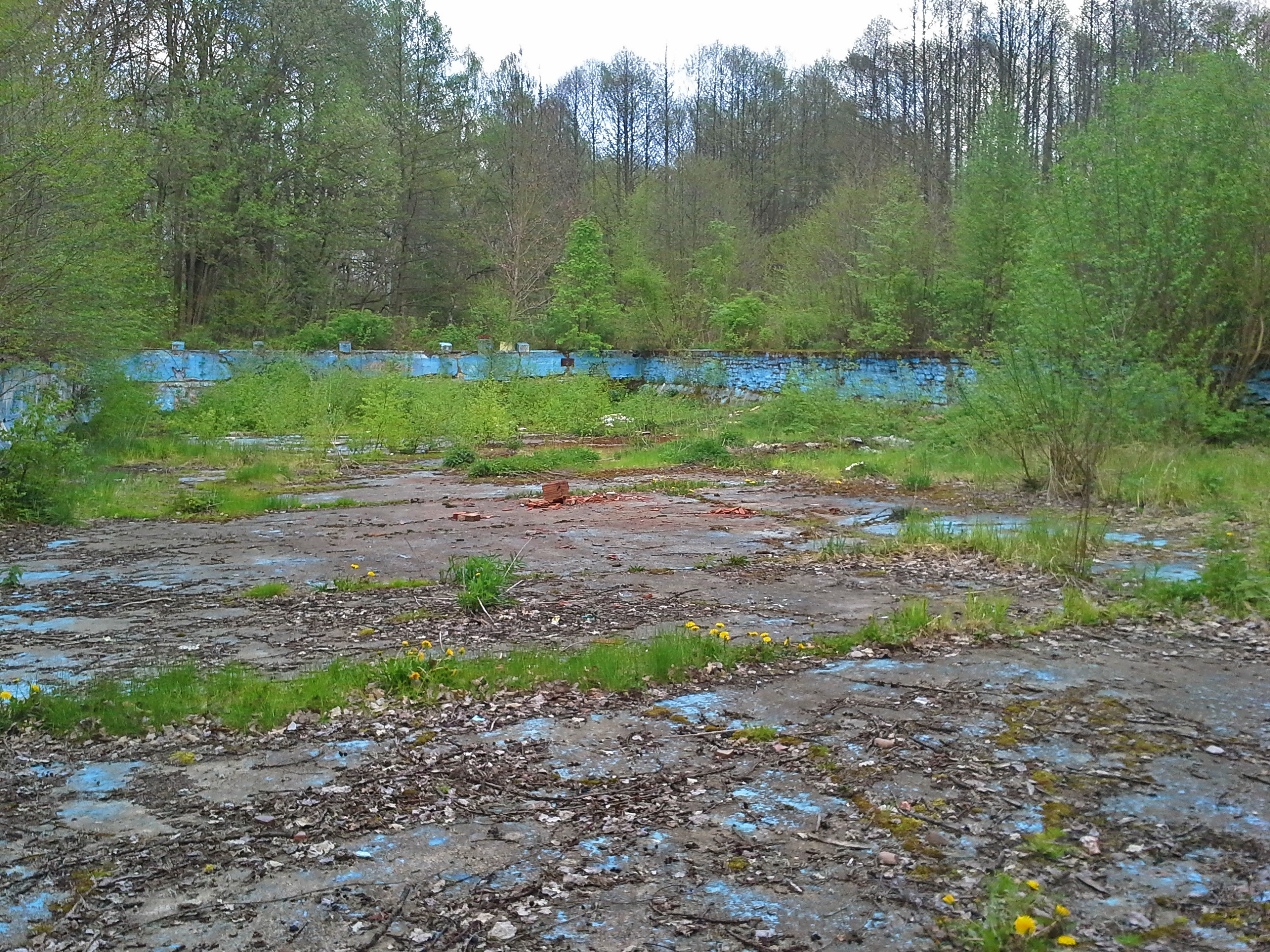 Swimming pool of the former Naturbad Niederwiesa in the Zeisigwald forest